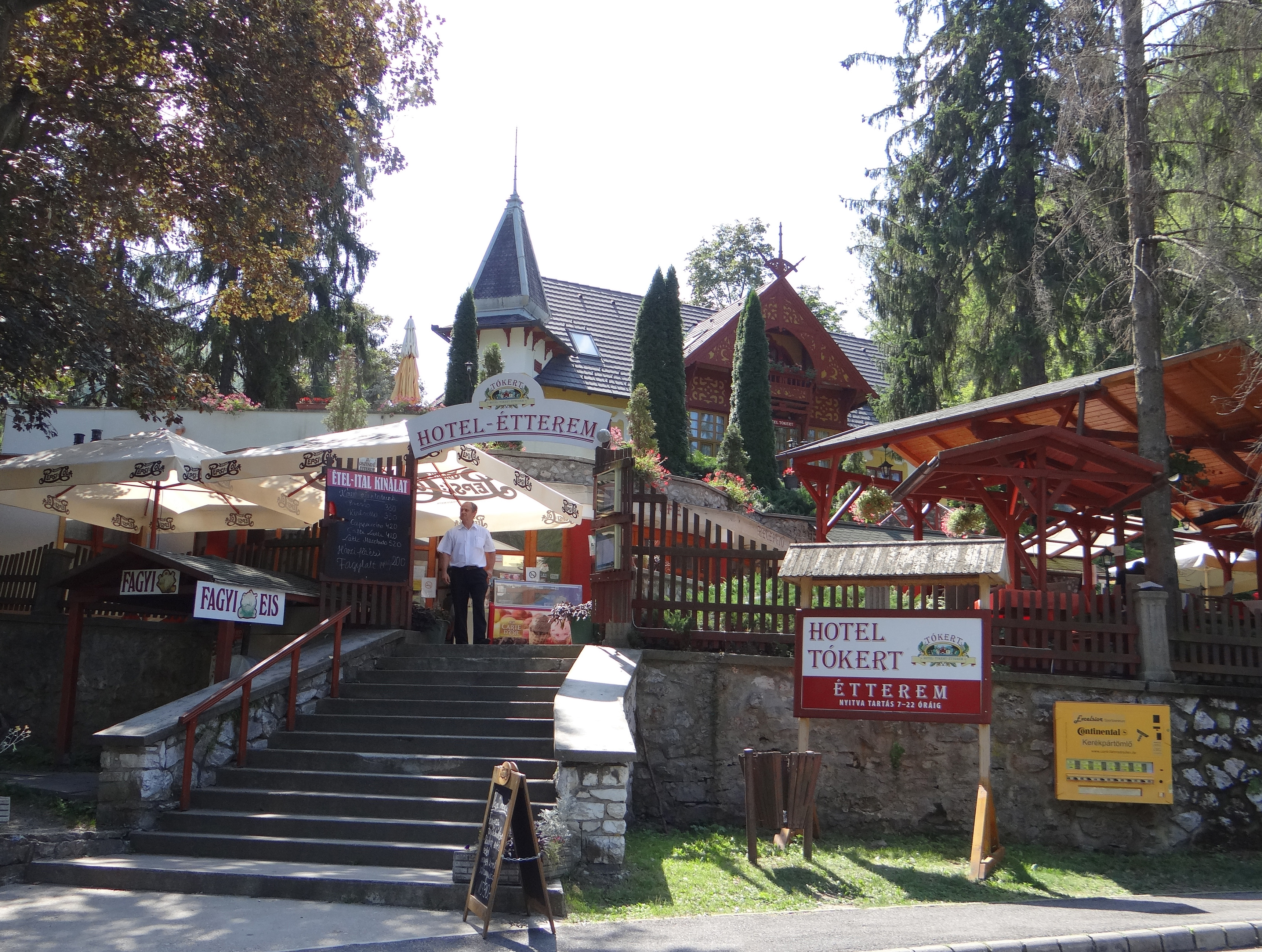 Tókert Hotel and Restaurant, Lillafüred, Hungary